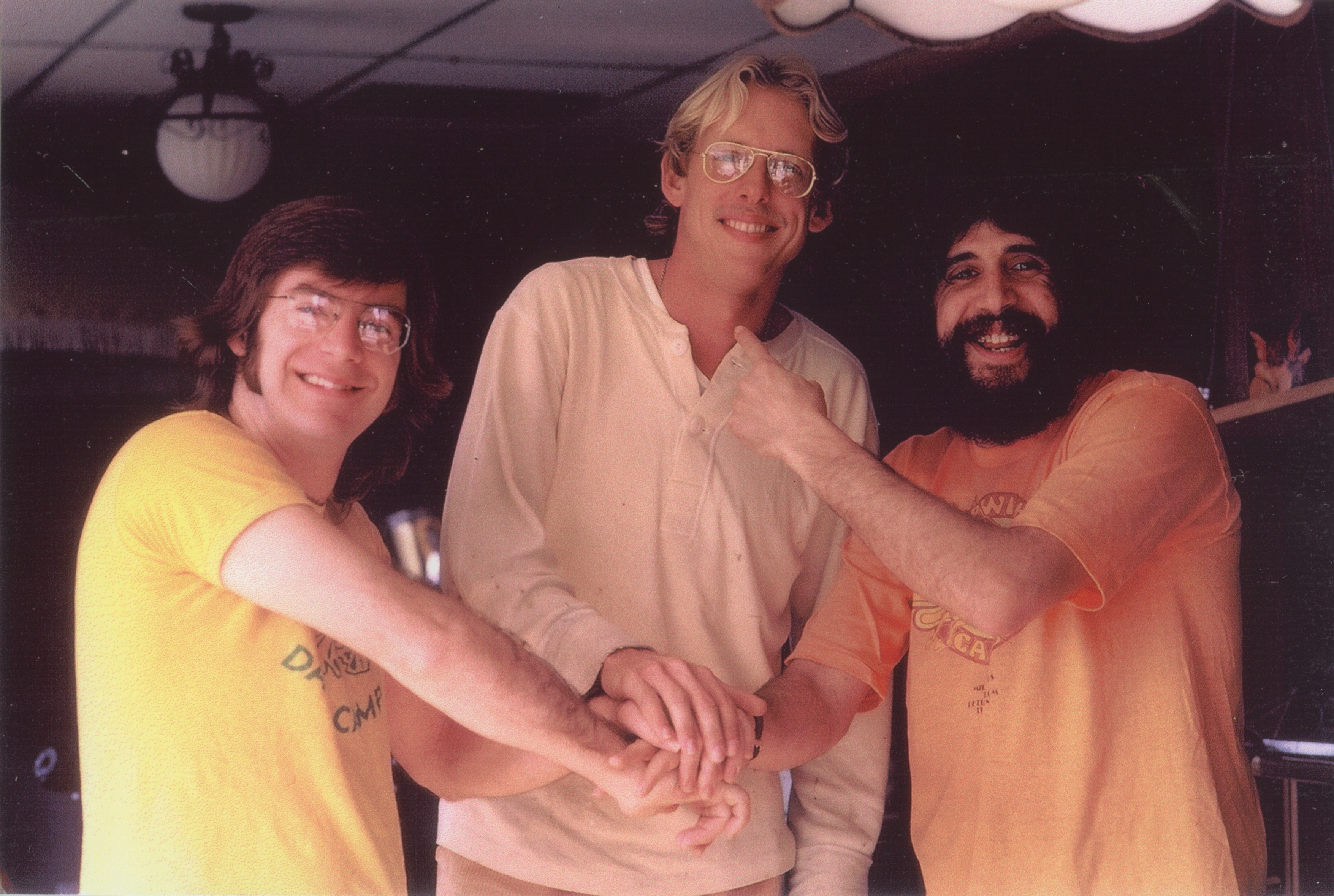 Erik Jacobsen with John and Zal